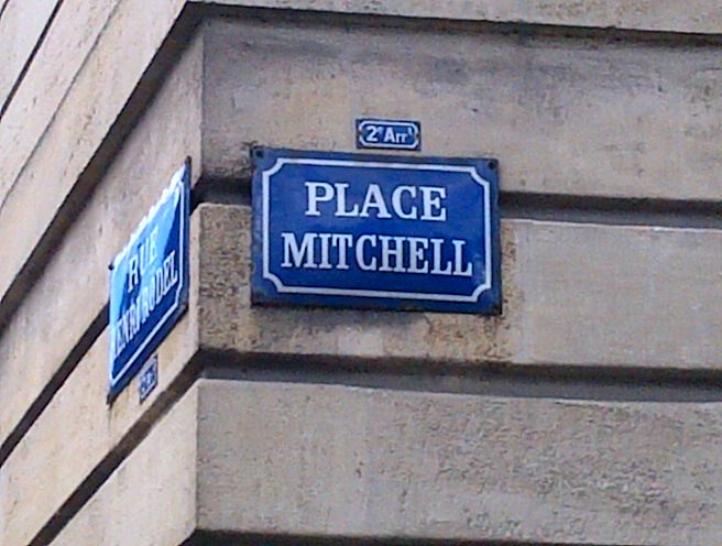 Place Mitchell, in Bordeaux, from the Mitchell family